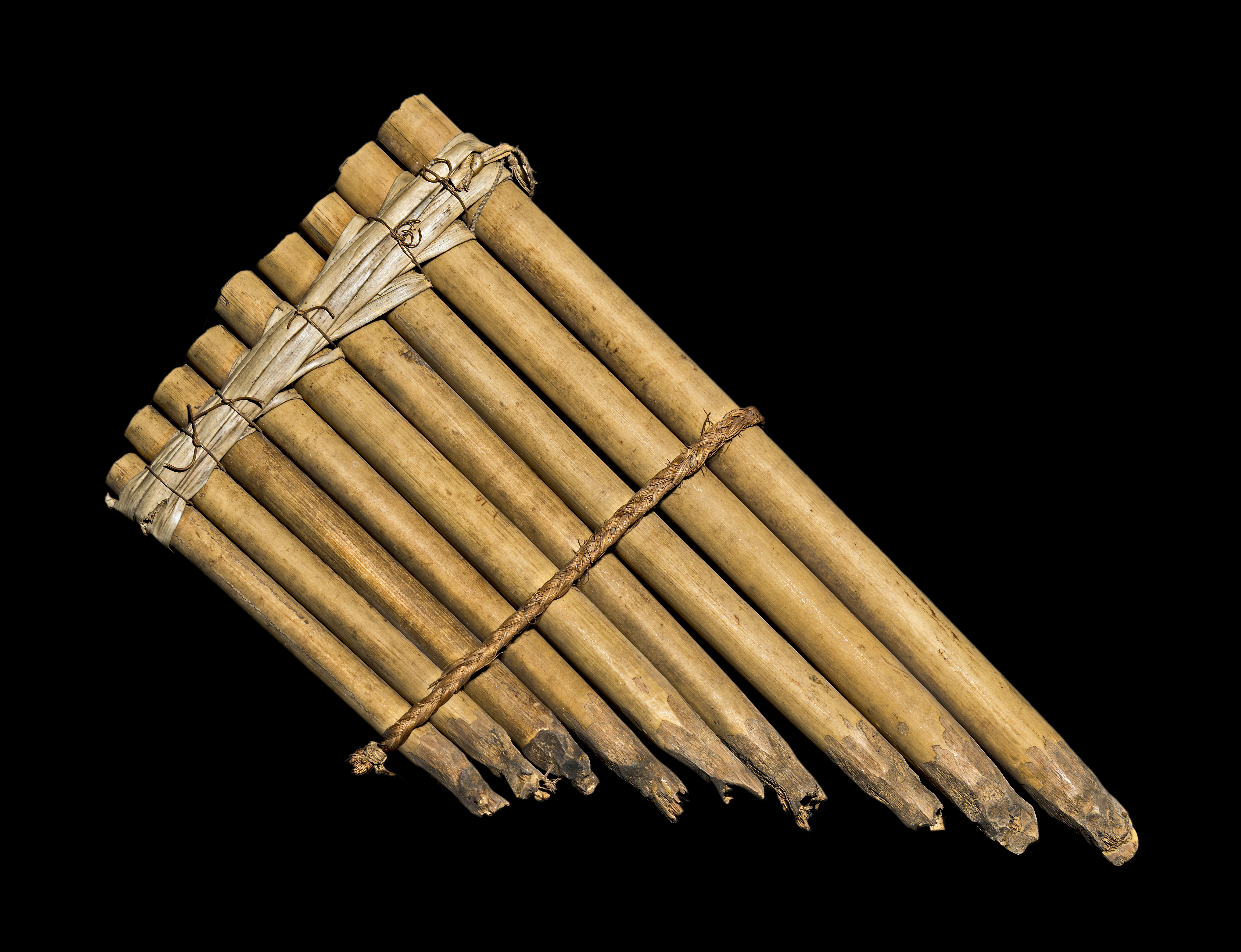 Pan flute Population : Solomon Islands Date of collection: the nineteenth century (4th Quarter) - Former collection of Théophile Savès Materials: Reed, bamboo, rope Size : 22 x 11 x 1.5 cm